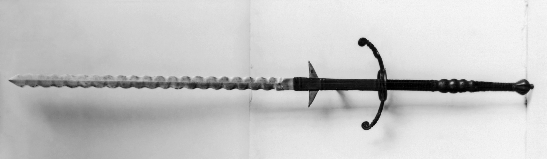 A two-handed sword could span up to 6 ft. in length. It was initially a specialized weapon for the infantry, used for cutting or thrusting, to penetrate the enemy's front line. After the introduction of firearms to the battlefield by the end of the 1500s, the role of the two-handed sword was generally limited to the ceremonial use of bodyguards and civic militia. The maker's mark on the blade is similar to ones used by bladesmiths in Munich.